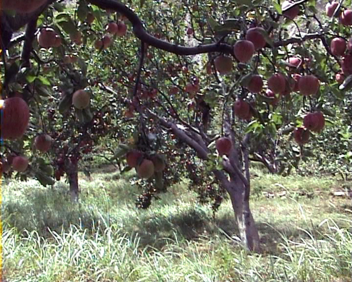 Apple cultivation in Nepal